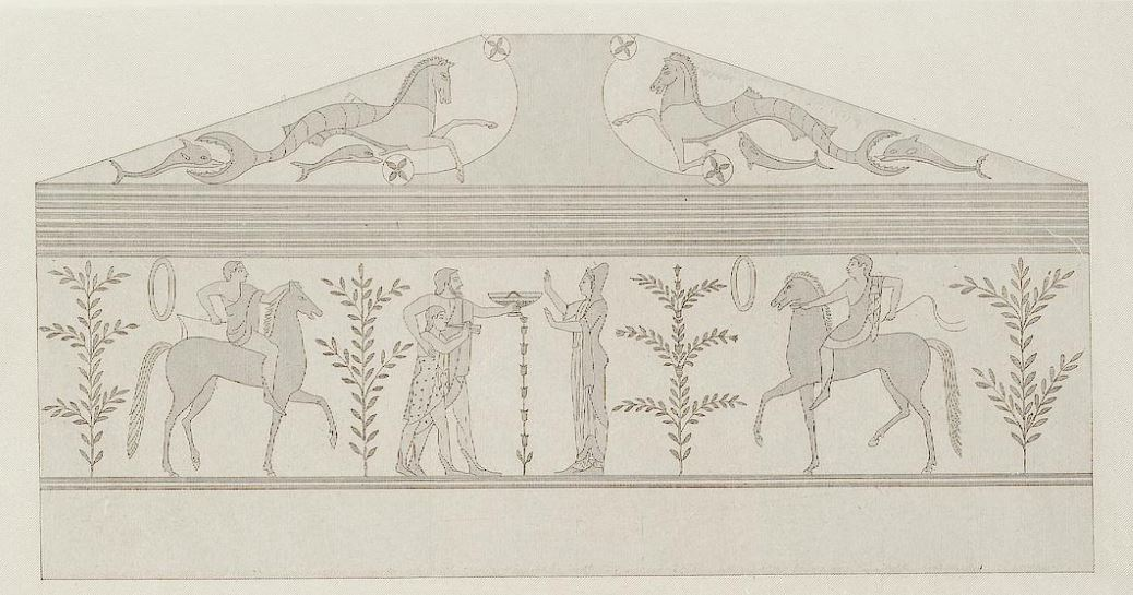 Tomba del Barone, paintings on backwall